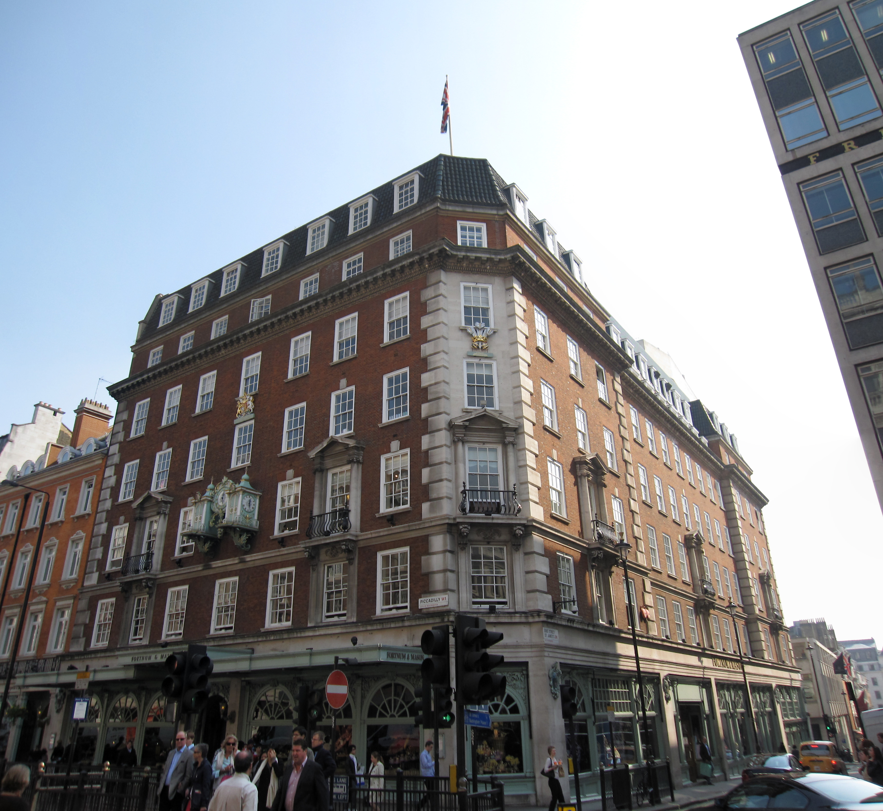 Fortnum & Mason on 181 Piccadilly in London.